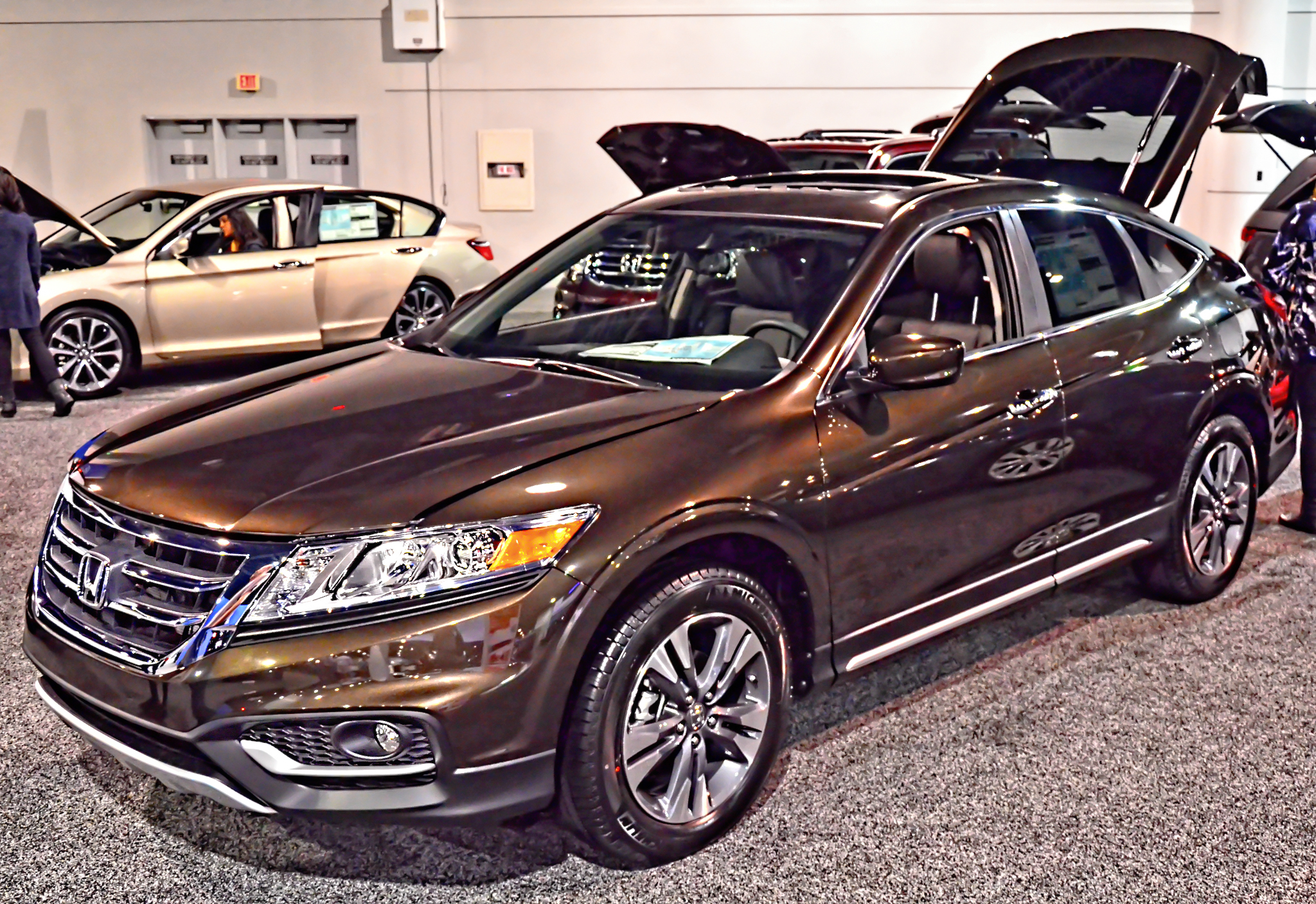 Auto Show 2014 Motor Trend International Las Vegas November 29, 2014 TDelCoro